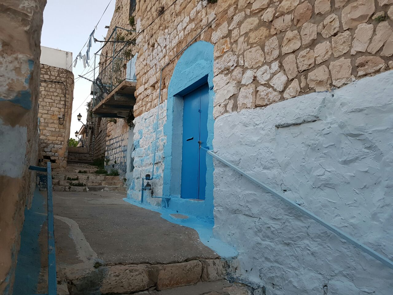 Photos of the Old City and its surroundings - Safed